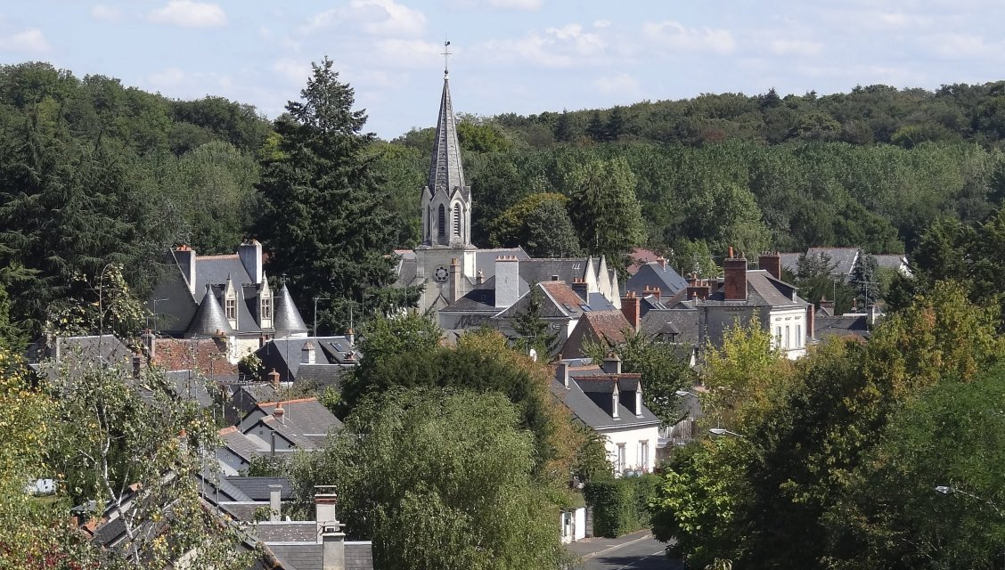 Mettray